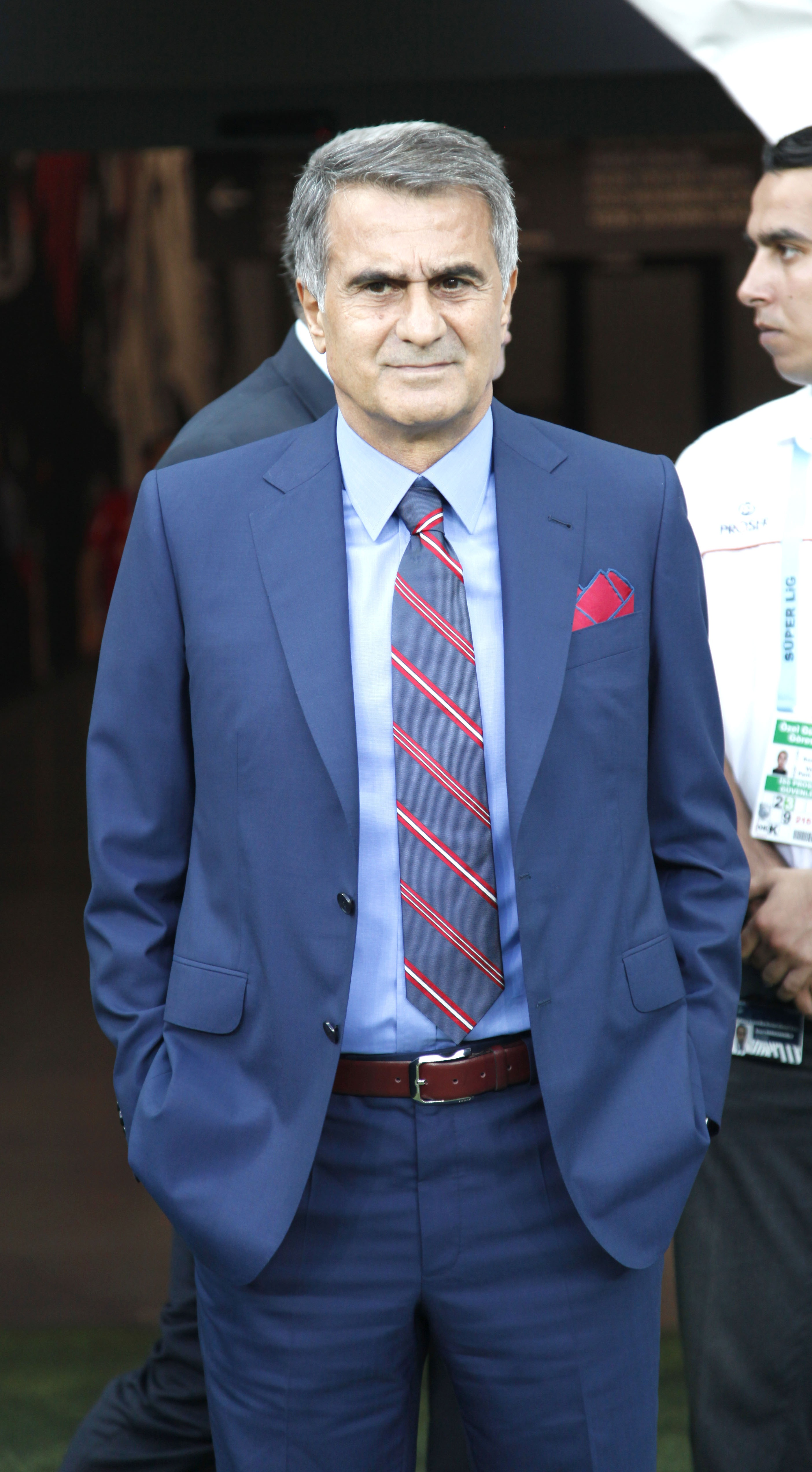 Şenol Güneş at Vodafone Park before Beşiktaş hosted Bursaspor on 26 August 2017.